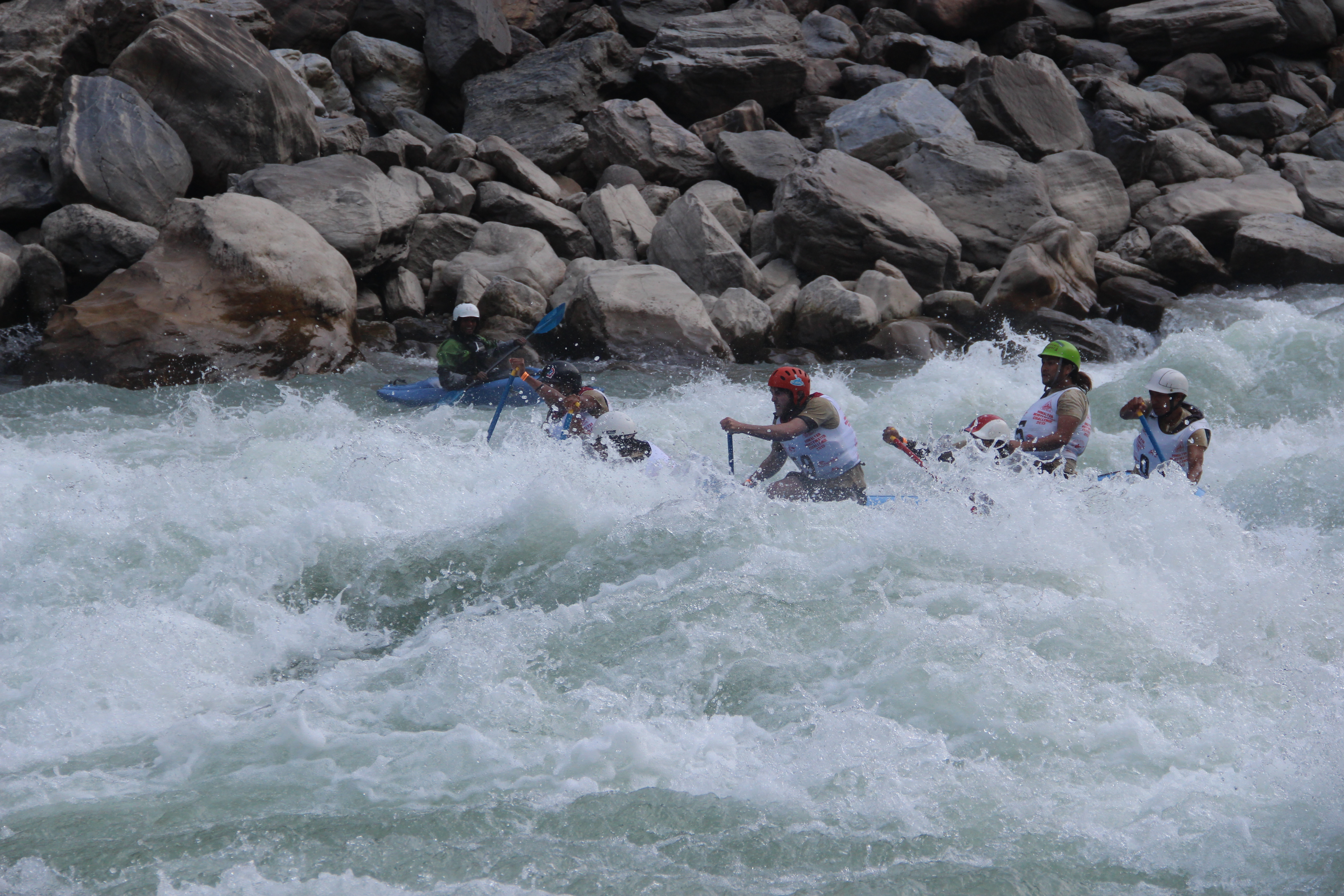 Trisuli